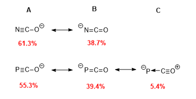 A graphic depicting the different resonance forms of the NCO and PCO anions. The weights of the different resonance forms are indicated below.